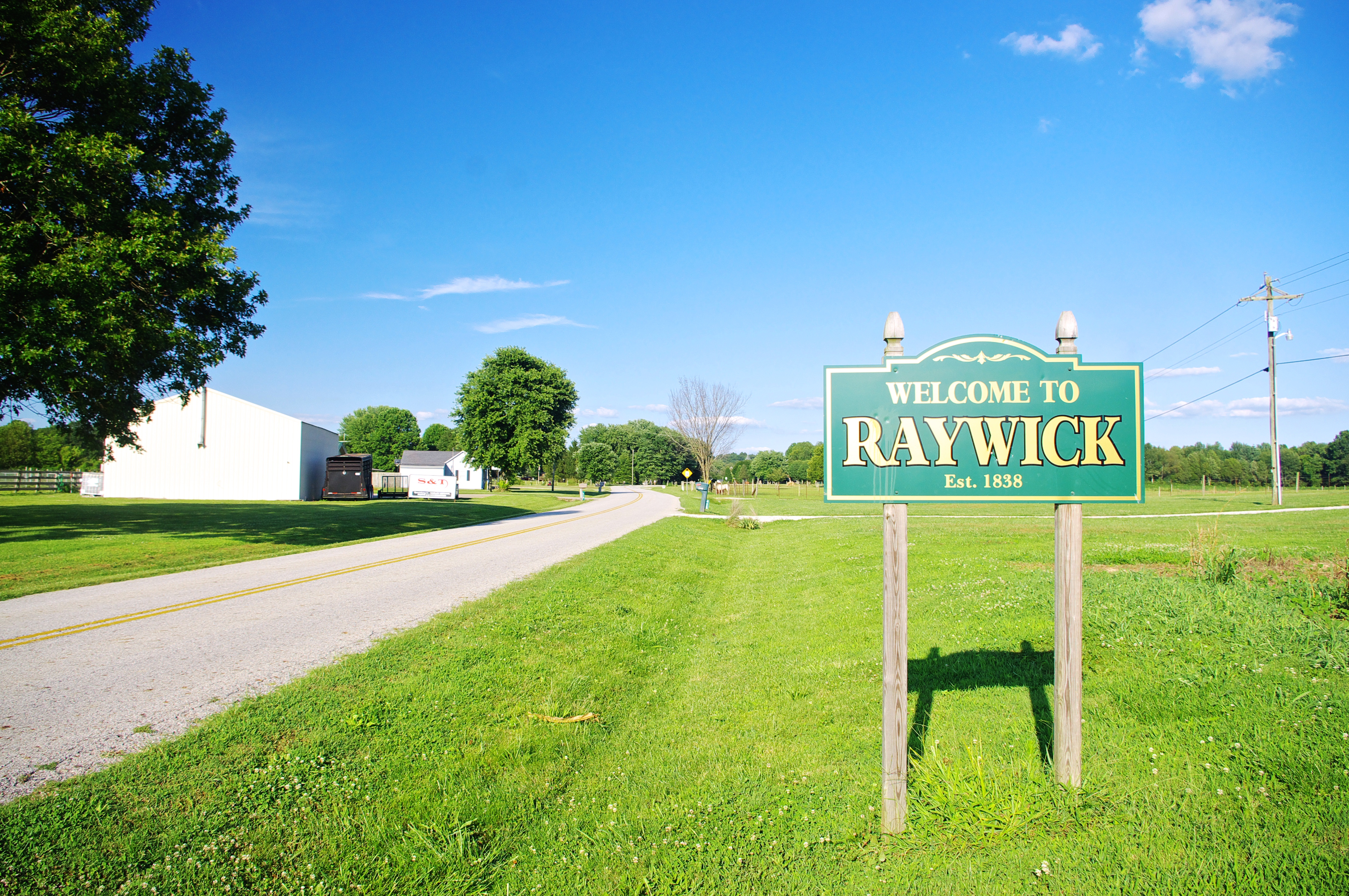 Welcome sign along Kentucky Route 84 in Raywick, Kentucky, United States.